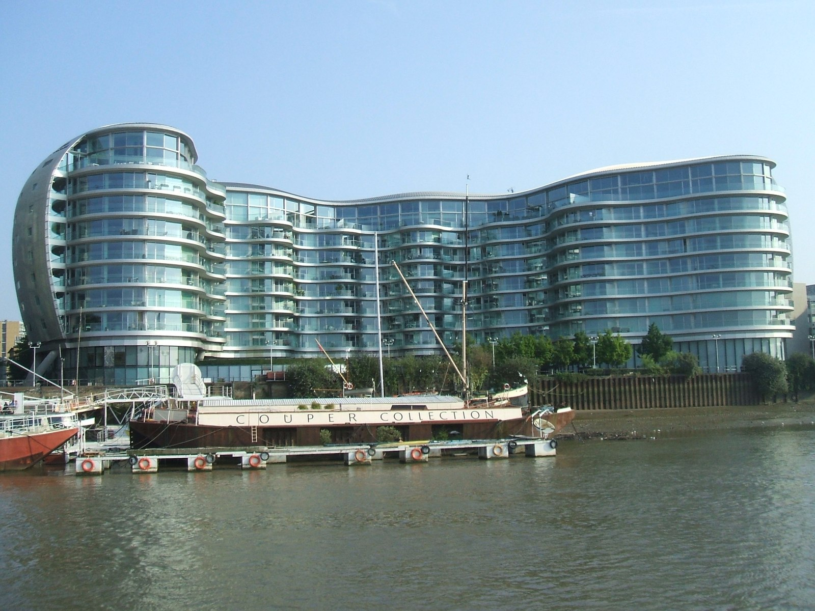 Ransomes Dock and Albion Riverside